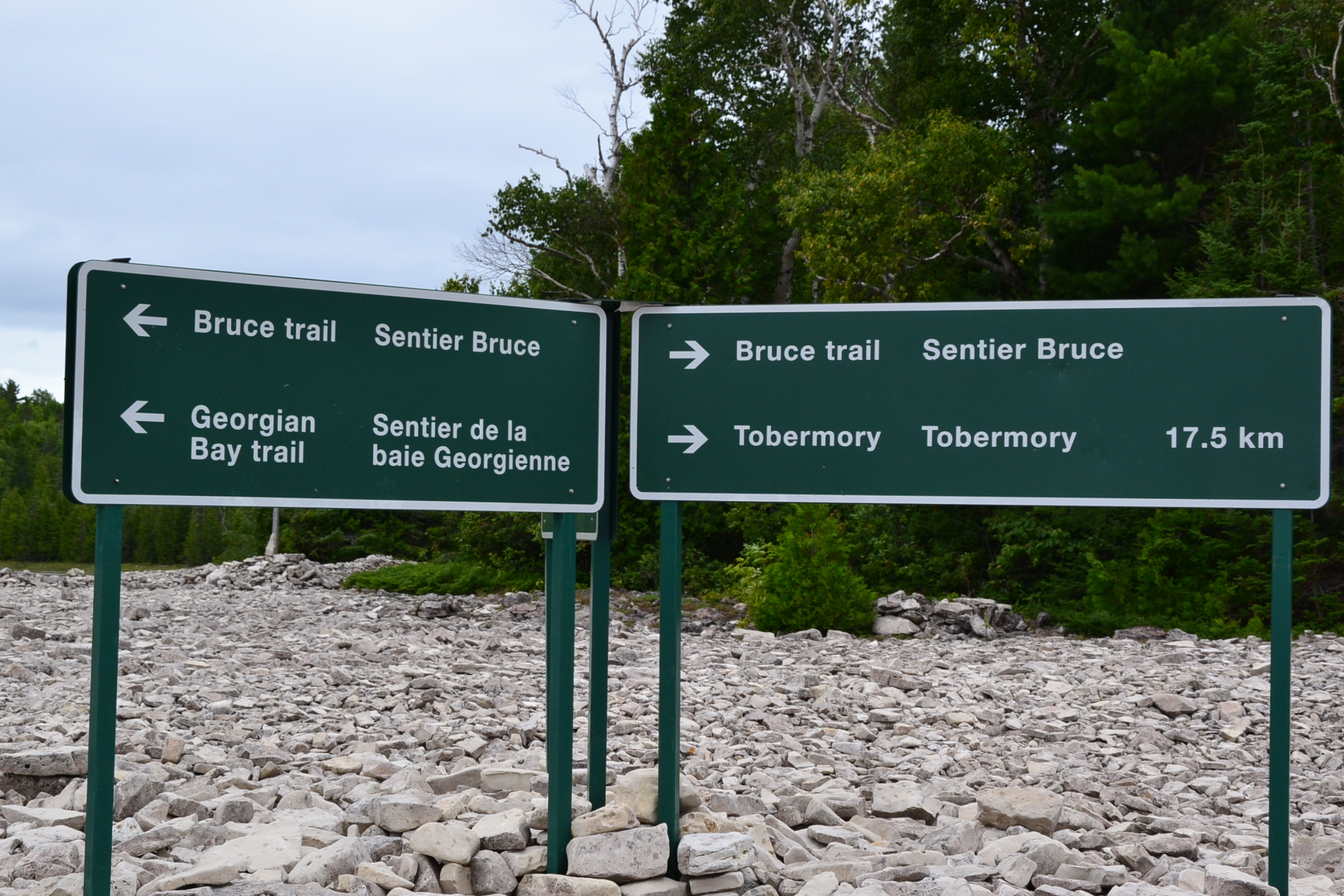 Bruce Trail - signposts on the Boulder Beach (Bruce Peninsula National Park)